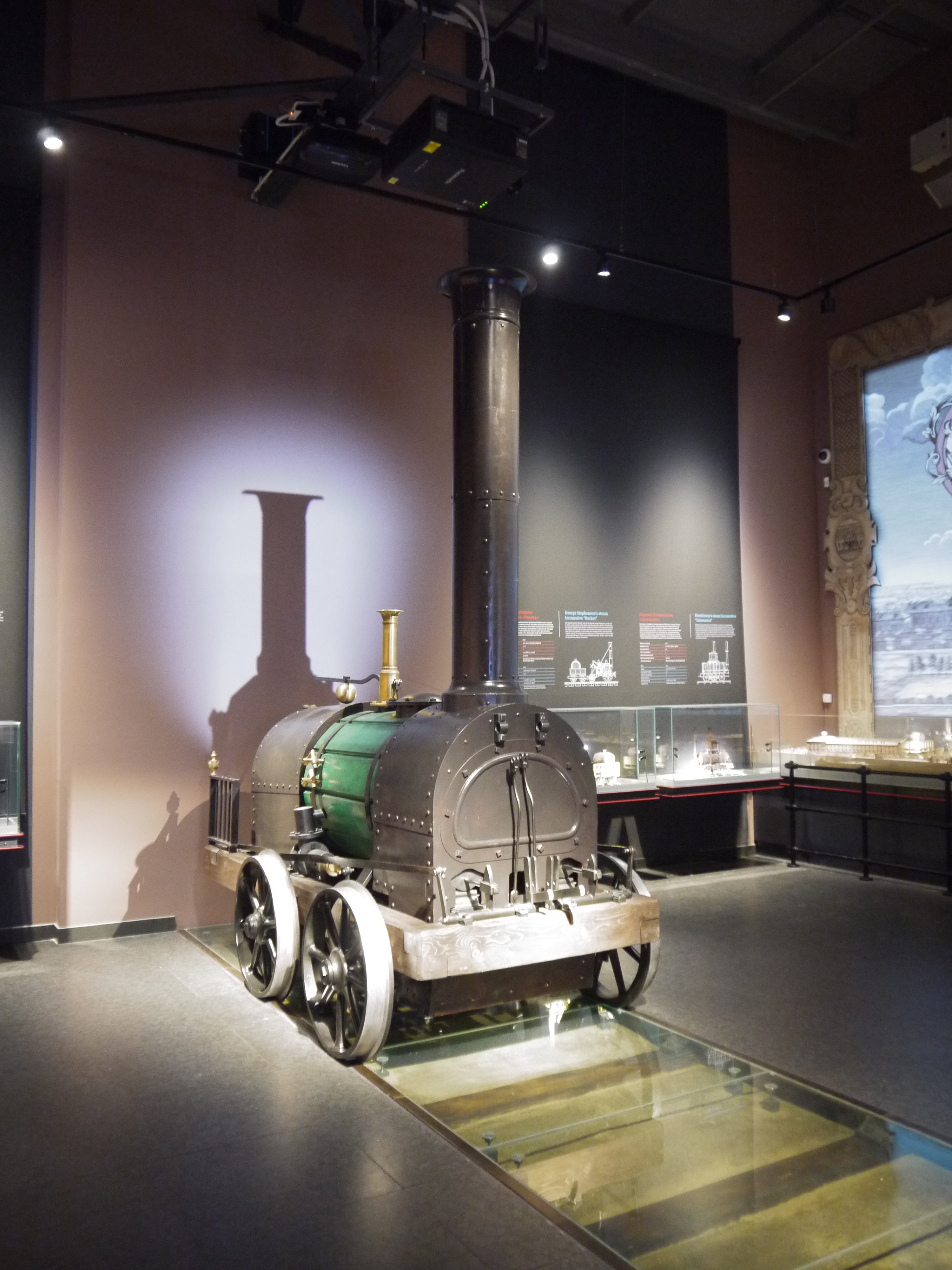 The model of the Cherepanov locomotive, Russian Railway Museum, adjacent Baltiysky Railway station, Saint Petersburg